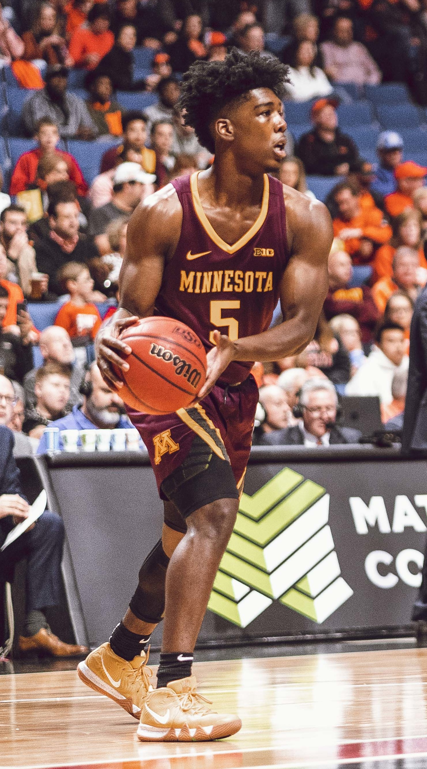 Image Taken At Oklahoma State Cowboys vs Minnesota Golden Gophers Basketball Game, Saturday, December 21, 2019, BOK Center, Tulsa, OK. Courtney Bay/OSU Athletics